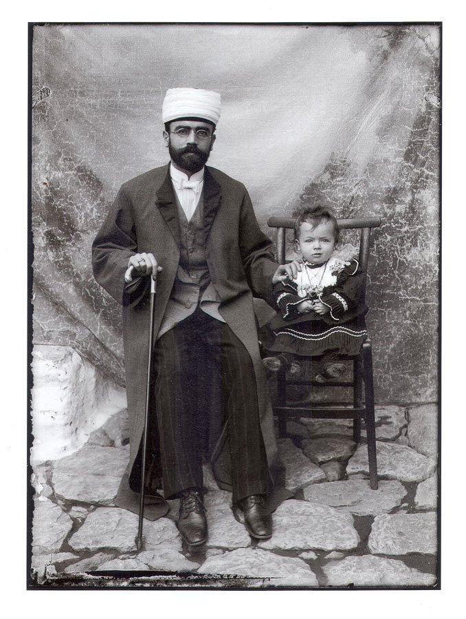 The mufti of Kastoria with his daughter.